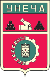 Unecha (Bryansk oblast), coat of arms (1986)